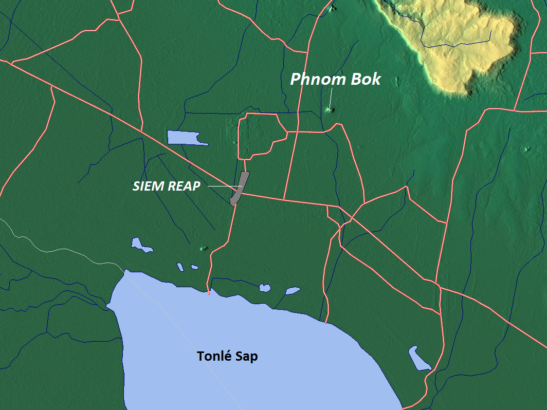 Map of Phnom Bok